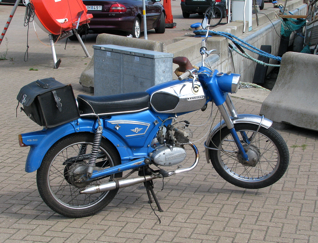 A classic from the 70s, Zündapp KS50.